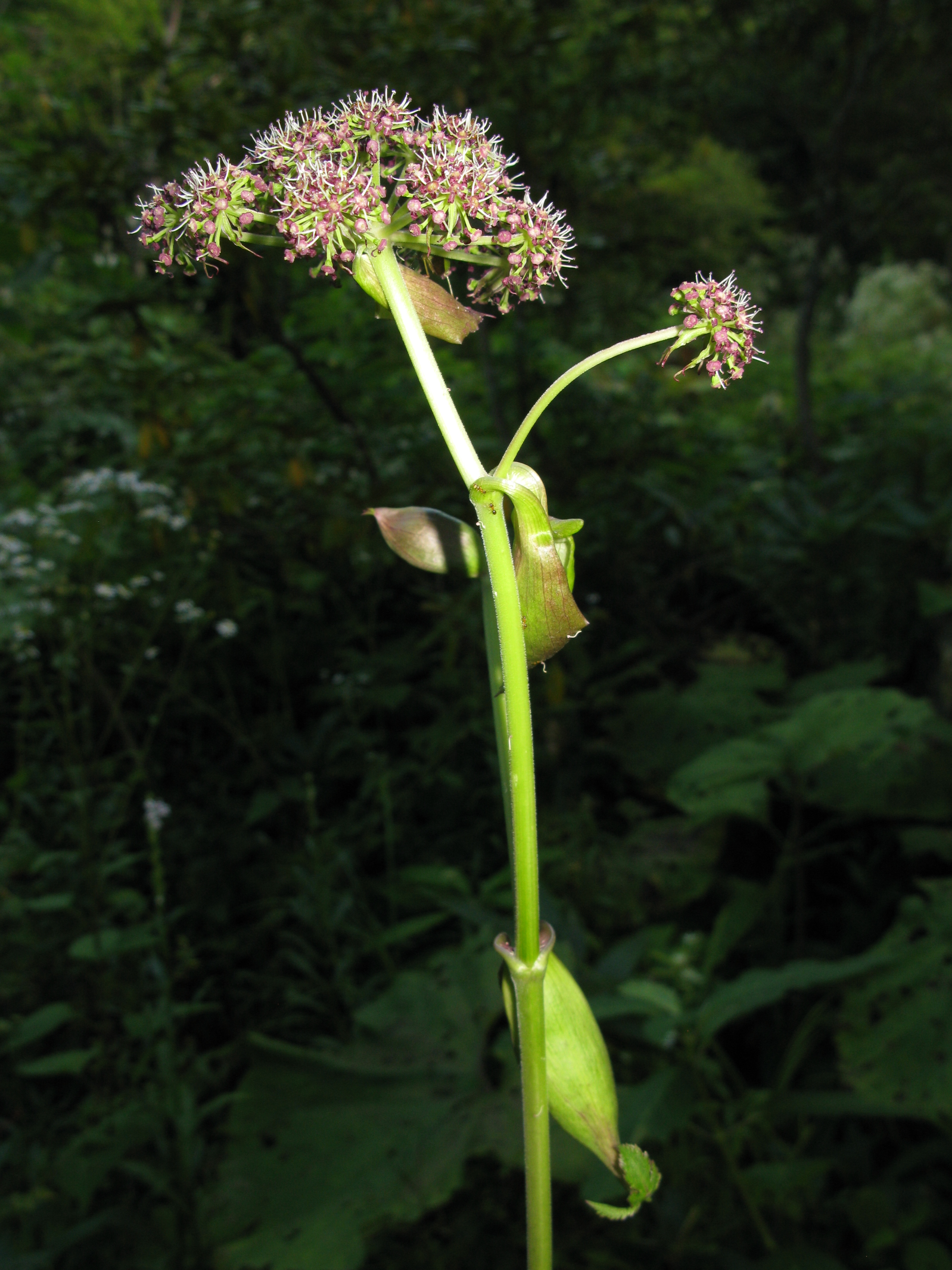 Angelica decursiva, Aizu area, Fukushima pref., Japan